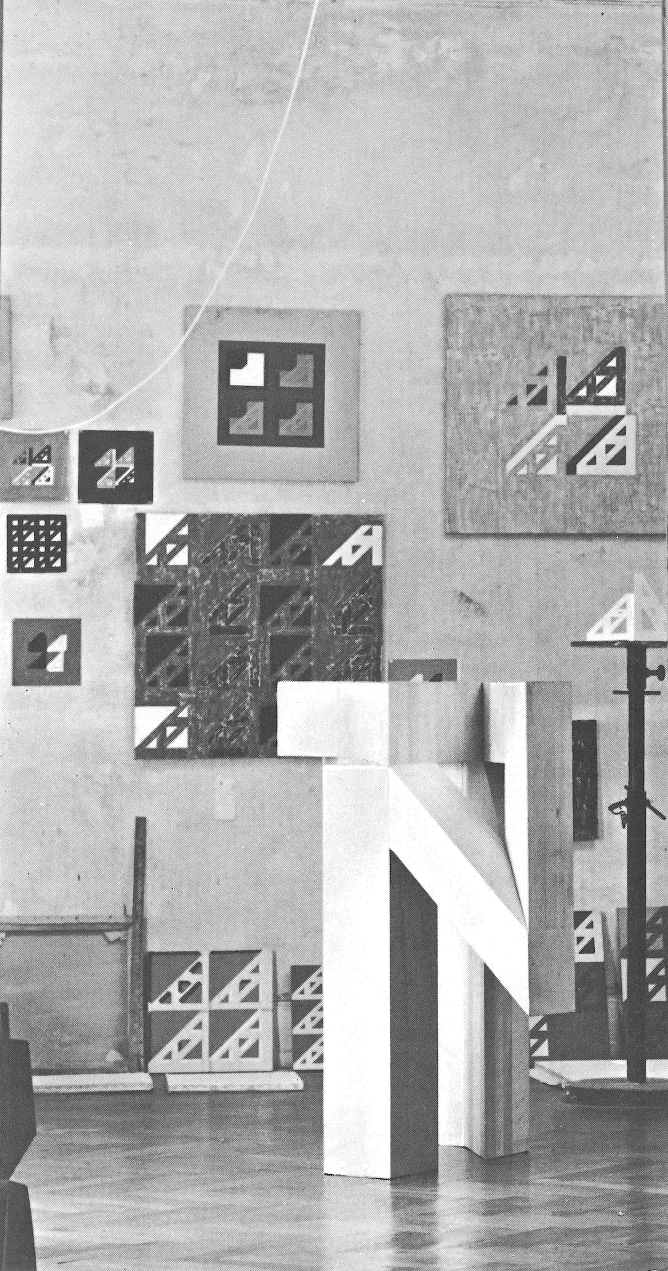 Blick in das Atelier von Günter Neusel in der Hasenbergsteige 4 in Stuttgart, ca. 1967